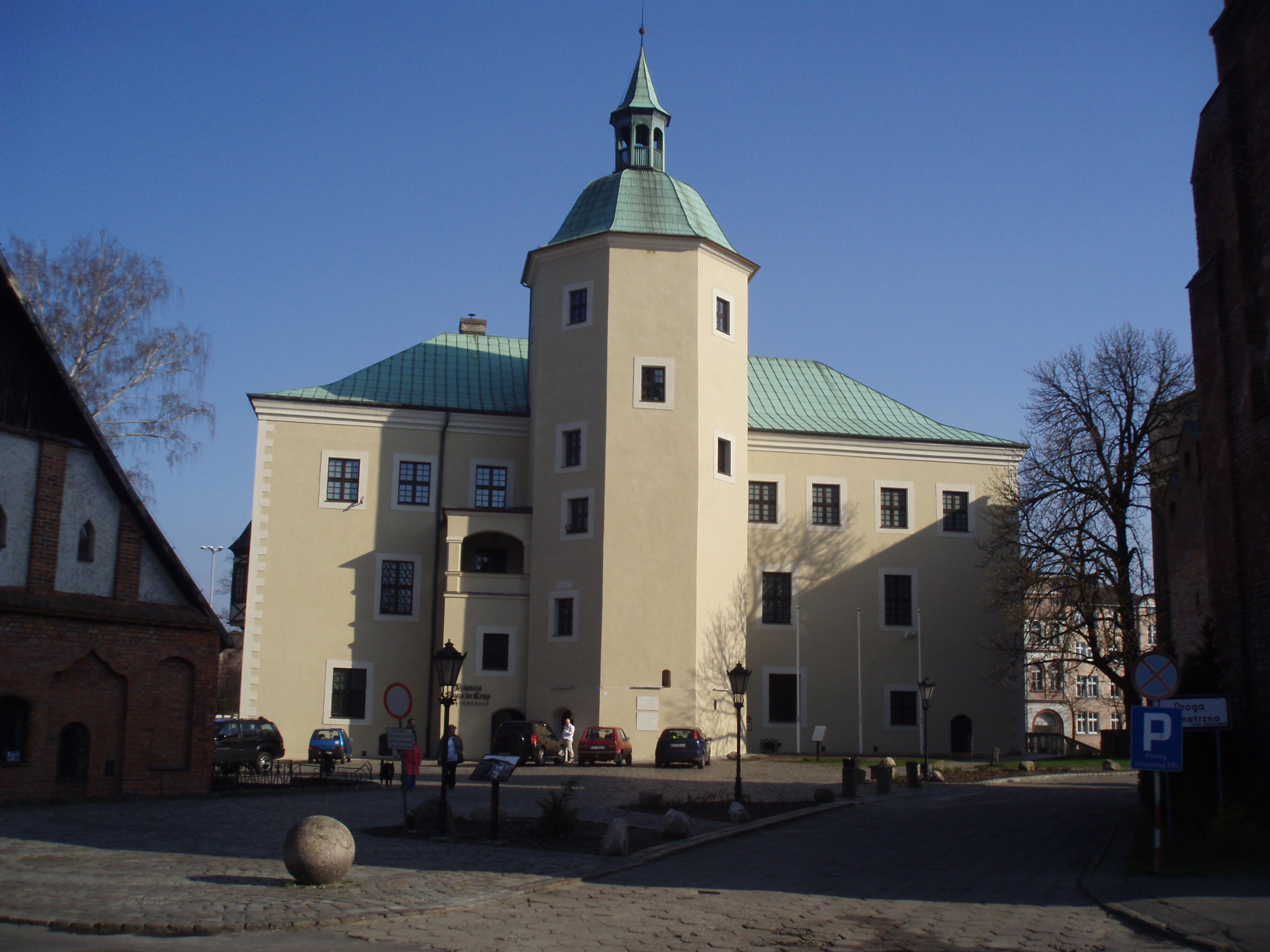 The Castle of Pomeranian Dukes in Słupsk, Poland.